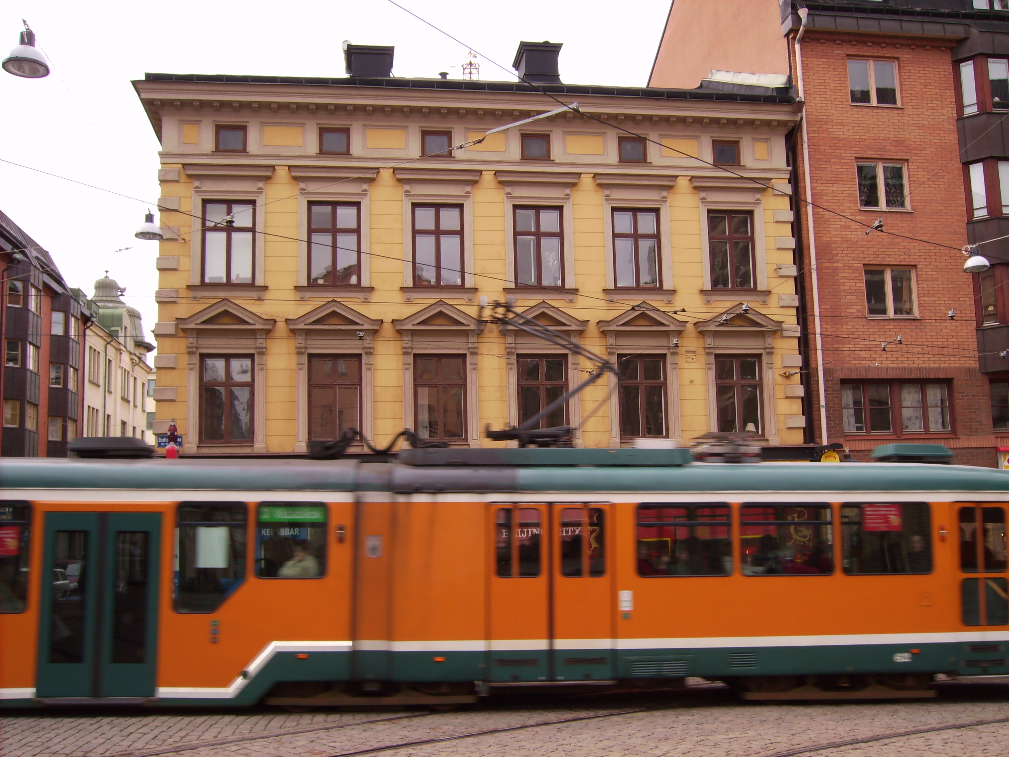 Photo by Harri Blomberg.